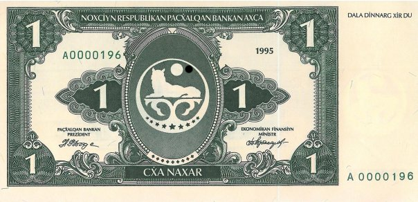 Chechen currency 1 naxar